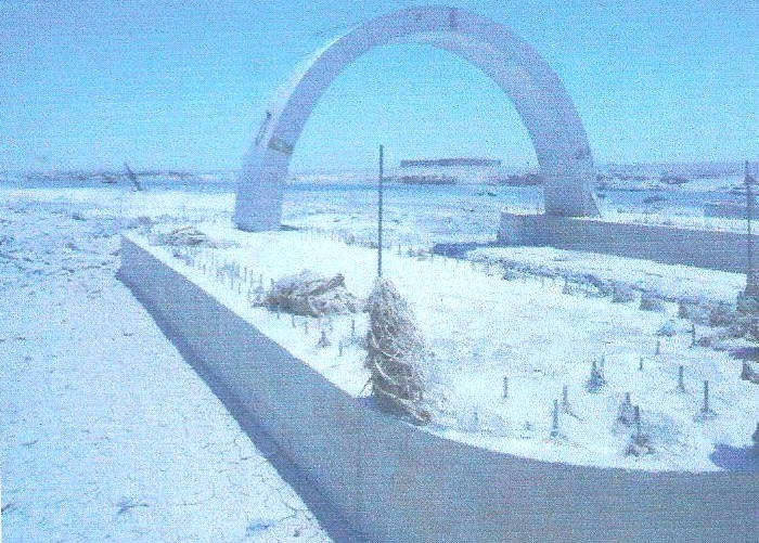 Bridge under construction near Tojg, Afghanistan